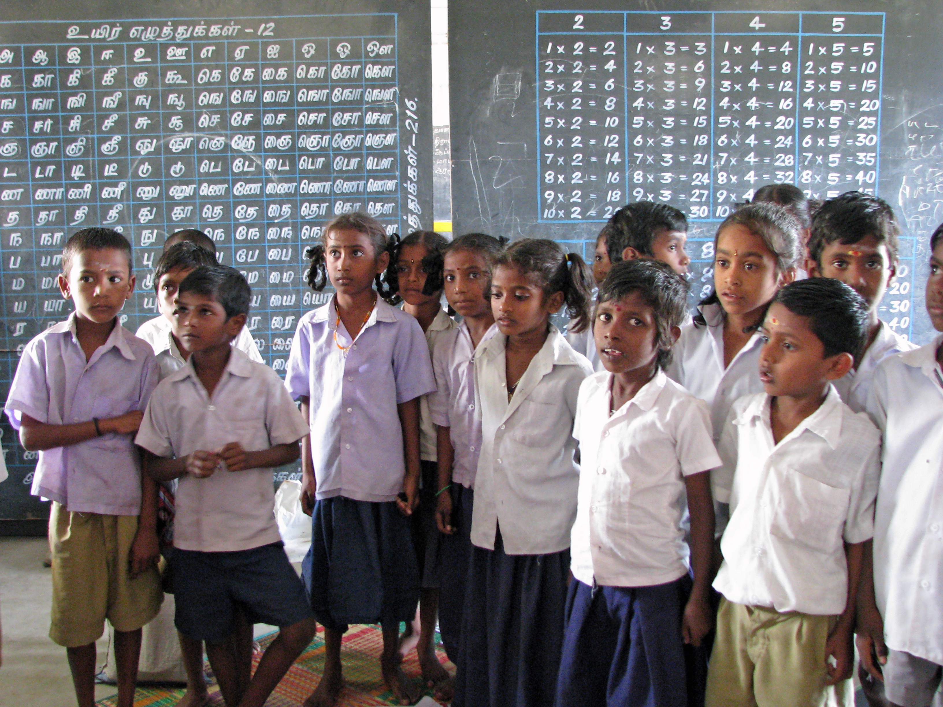 School kids showing off their classroom and lessons at a rural school in Kanchipuram district, Tamil Nadu. Rather than building parallel schools, Hand in Hand supports the existing mainstream government schools like this one with additional teachers (the student-teacher ratio can be as high as 80:1), extra learning resources, nutrition programs and improving community involvement in the school with Parent-Teacher Associations (PTAs). Improving the education in existing schools is important in ensuring all children get a quality education and retaining school-going children, particularly who were previously in child labour, from dropping out.